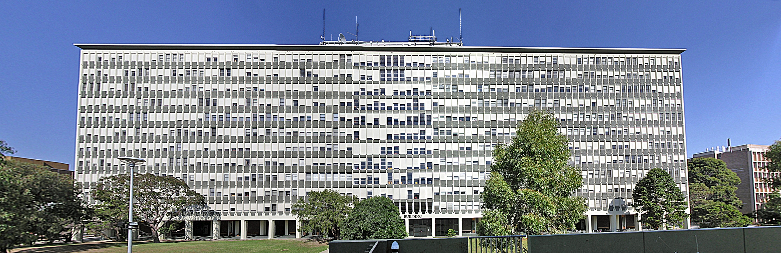 Robert Menzies Building, Monash University Clayton Campus (Image stitching)